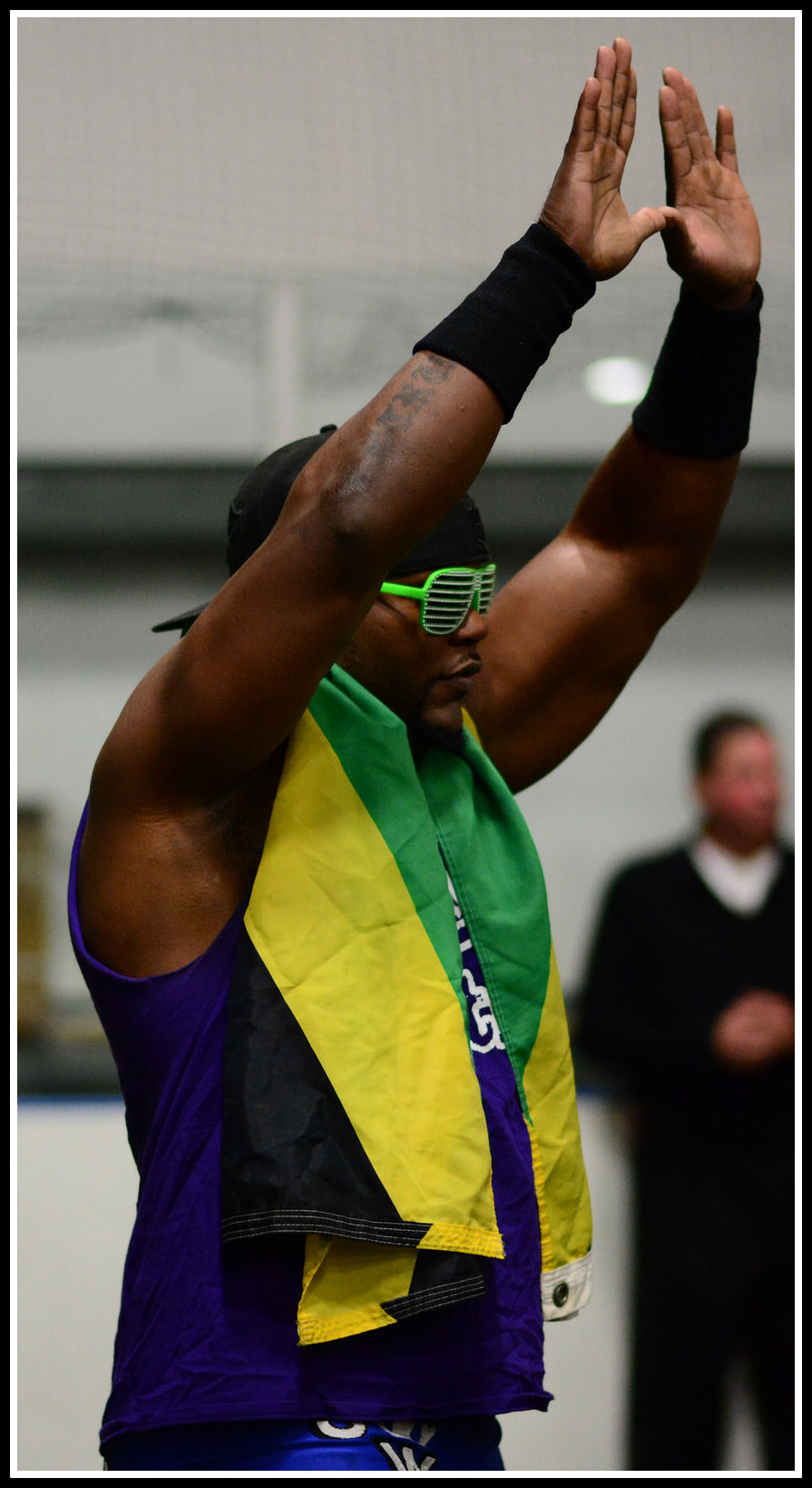 Slyck Wagner Brown enter an NECW ring at a 2015 show....